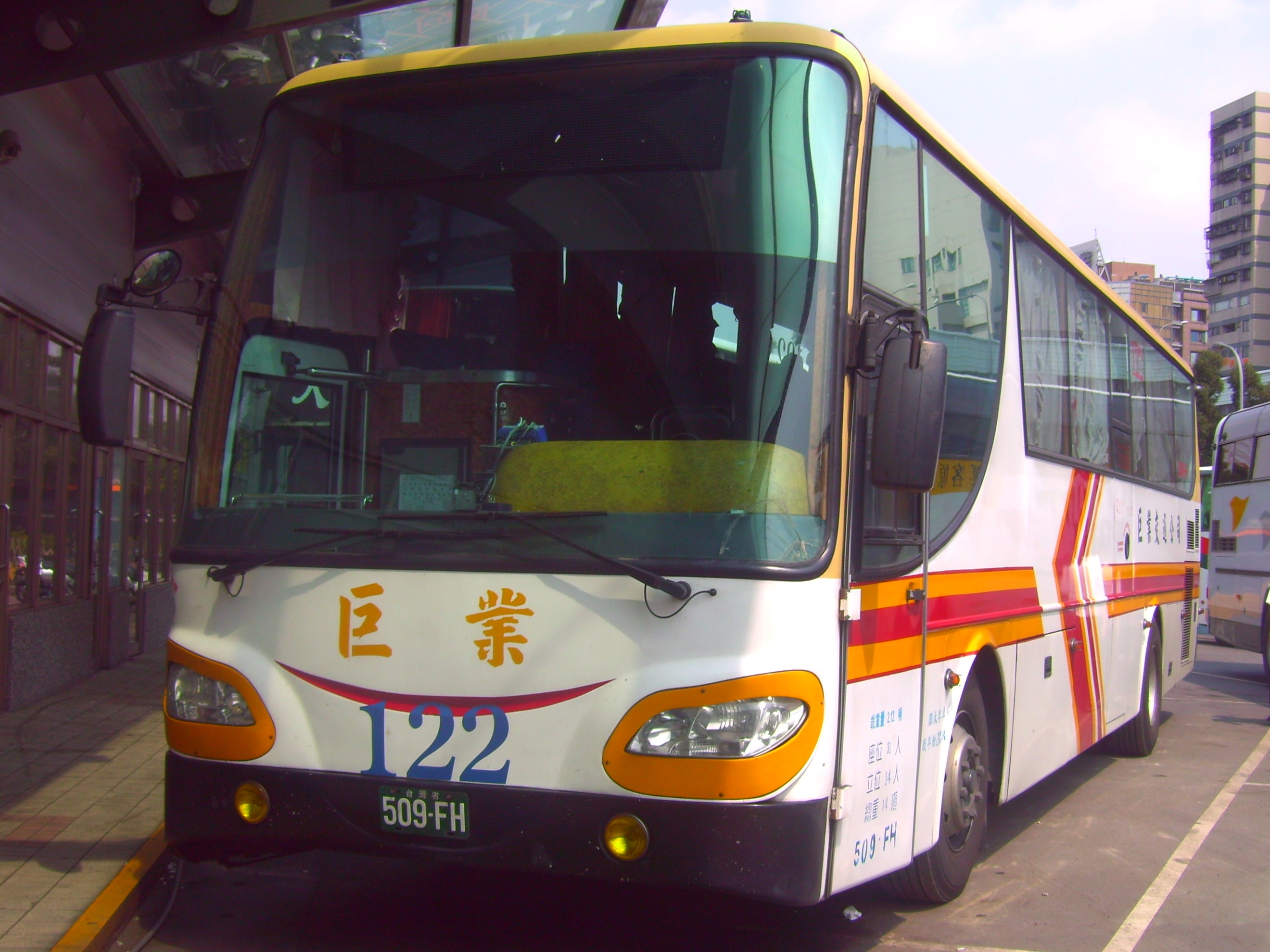 G-Bus Transportation Co., Ltd. operated freeway line service with Fuso RM117NL bus structure.